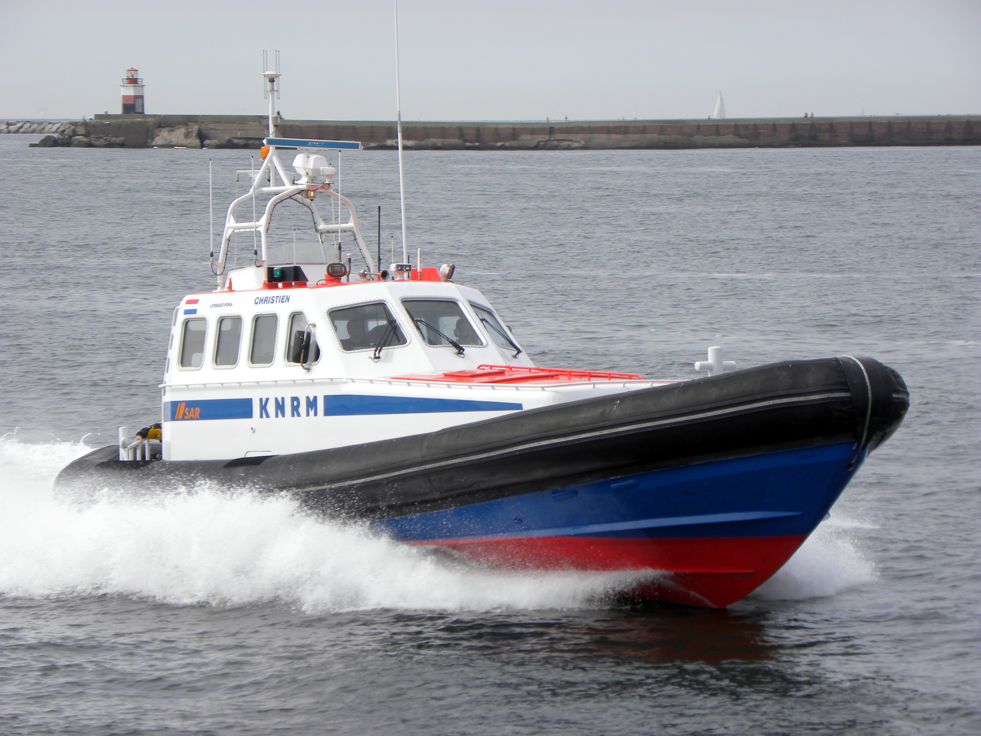 KNRM Christien lifeboat at IJmuiden